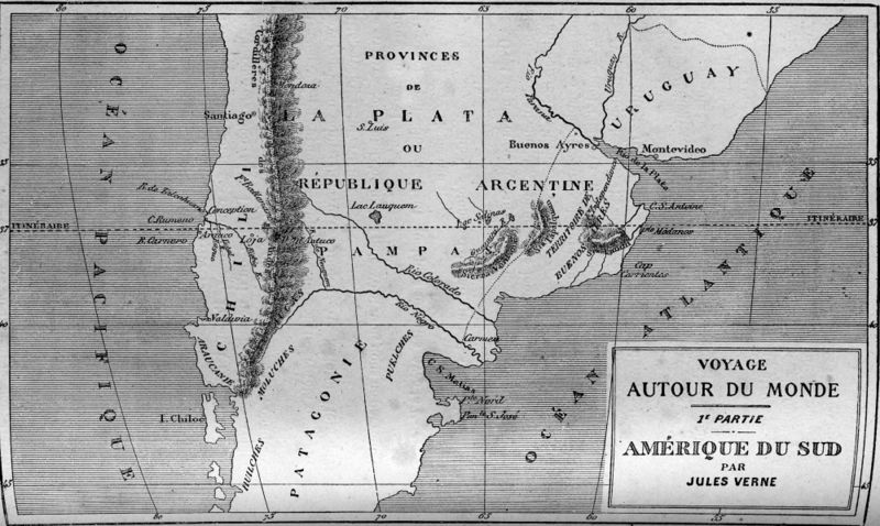 An ilustration from the novel "In Search of the Castaways; or Captain Grant's Children" by Jules Verne drawn by Édouard Riou.